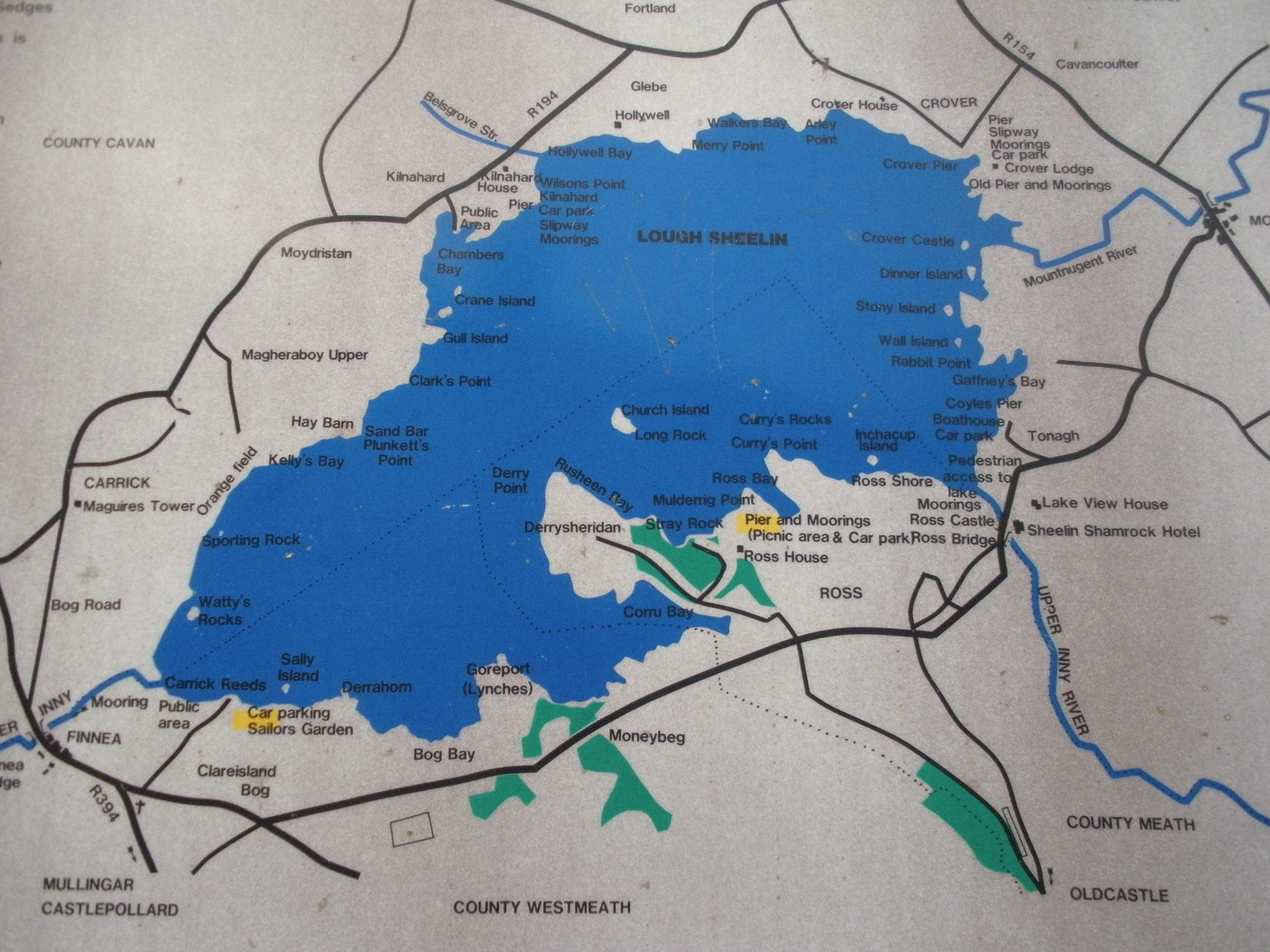 Lough Sheelin map